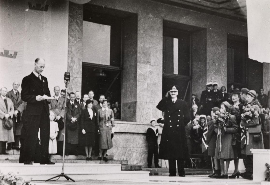 King Haakon returns to Norway after World War II.